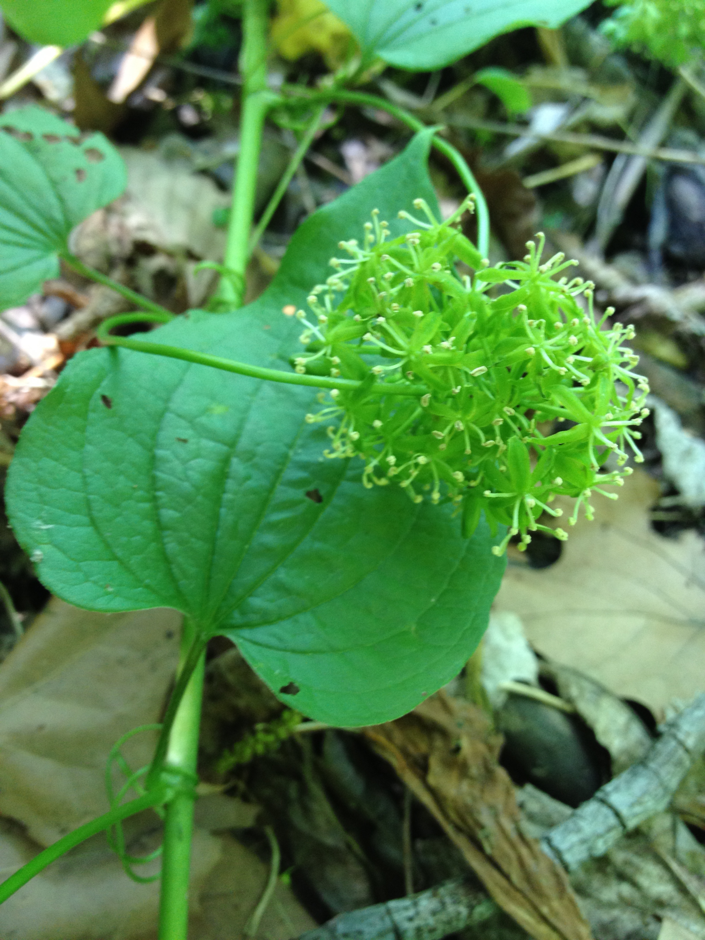 Photo of Smilax herbacea in flower. This is a native plant growing wild along the Potomac Heritage Trail, in Fairfax county Virginia, USA. This species is a member of the Smilacaceae family.